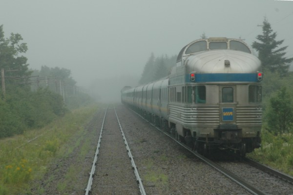 Photograph by Alan Macek (aka User:Al guy) on August 13, 2005 of Train #14, the Ocean. The photo was taken from onboard Train #15, the Ocean while travelling west through Belmont, Nova Scotia (near Truro). The train in the photo is travelling east towards Truro and its destination, Halifax, Nova Scotia.